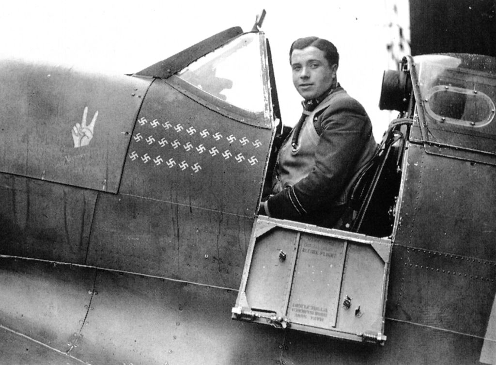 Erick Stanley Lock. A British 26-victory ace.